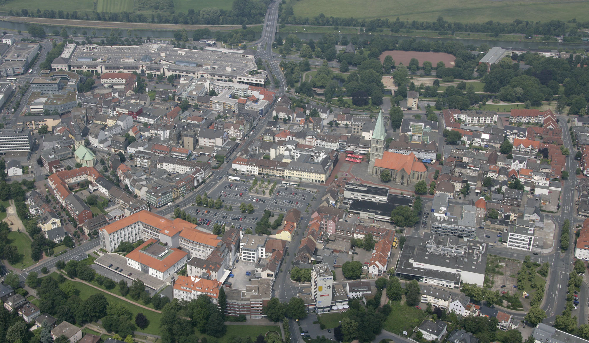 City of Hamm